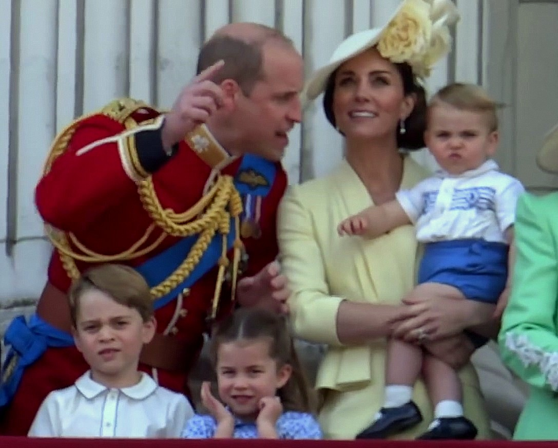 The Cambridge family attended the annual Queen’s Birthday Parade known as Trooping the Colour. The event took place on Horse Guards Parade in London.